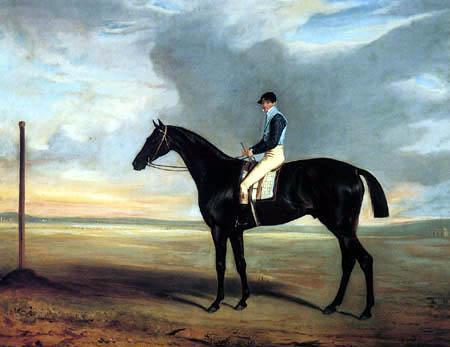 Cadland, winner of the 1828 Epsom Derby with jockey Jem Robinson. Painting by John Ferneley (1762-1860). Artist has been dead for 152 years.